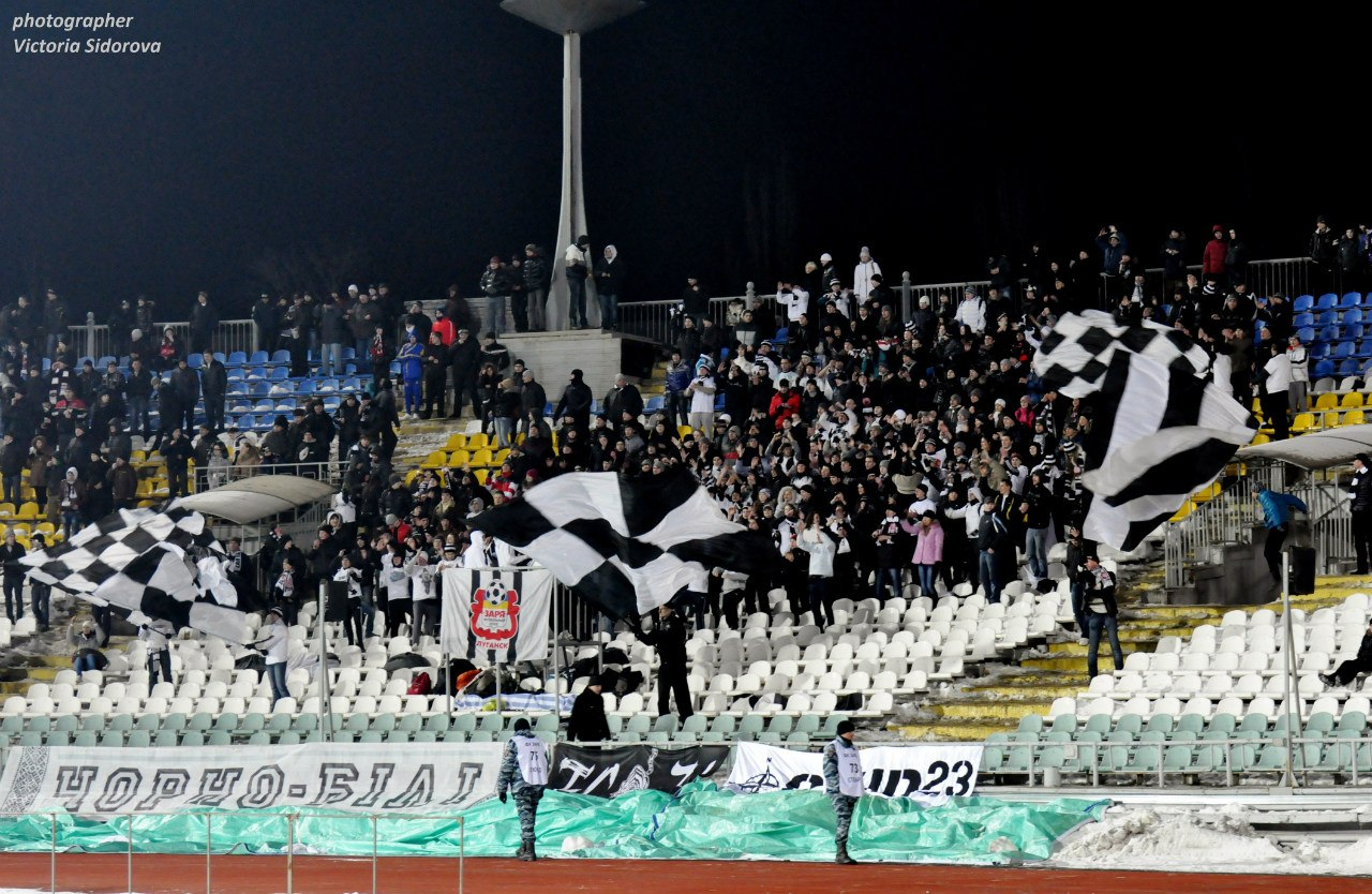 FC Zorya Luhansk fans